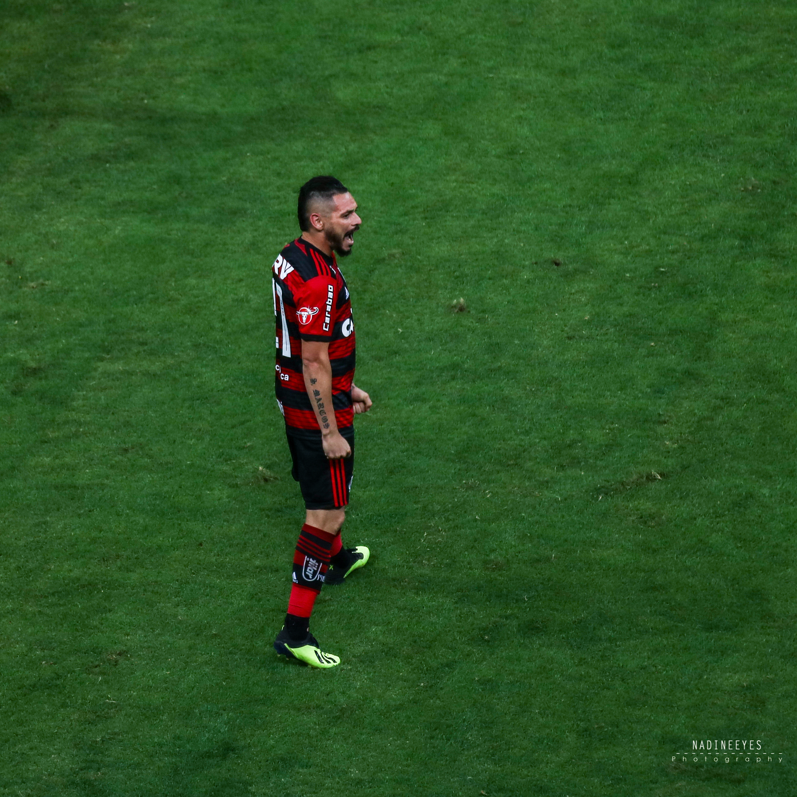 2018 Campeonato Brasileiro Série A – Flamengo v Vasco, 15 September 2018